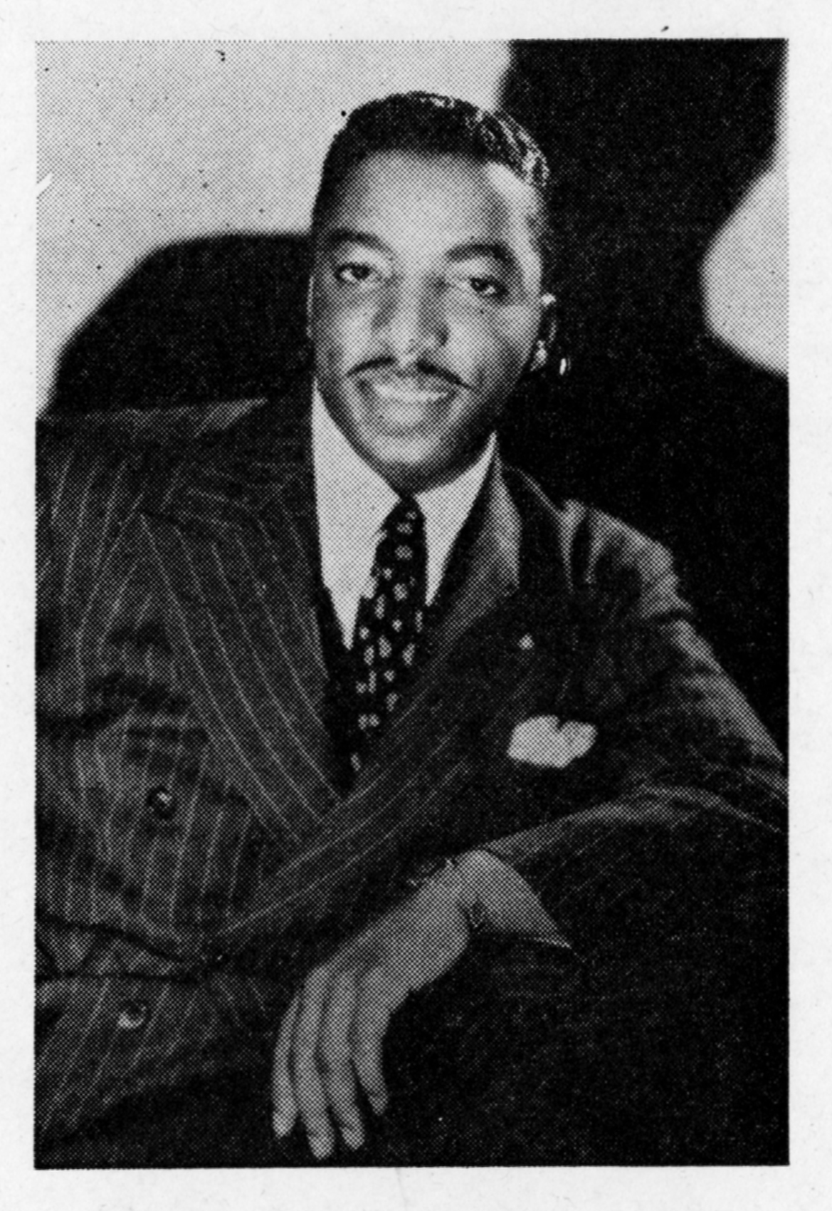 Photograph of Erskine Hawkins